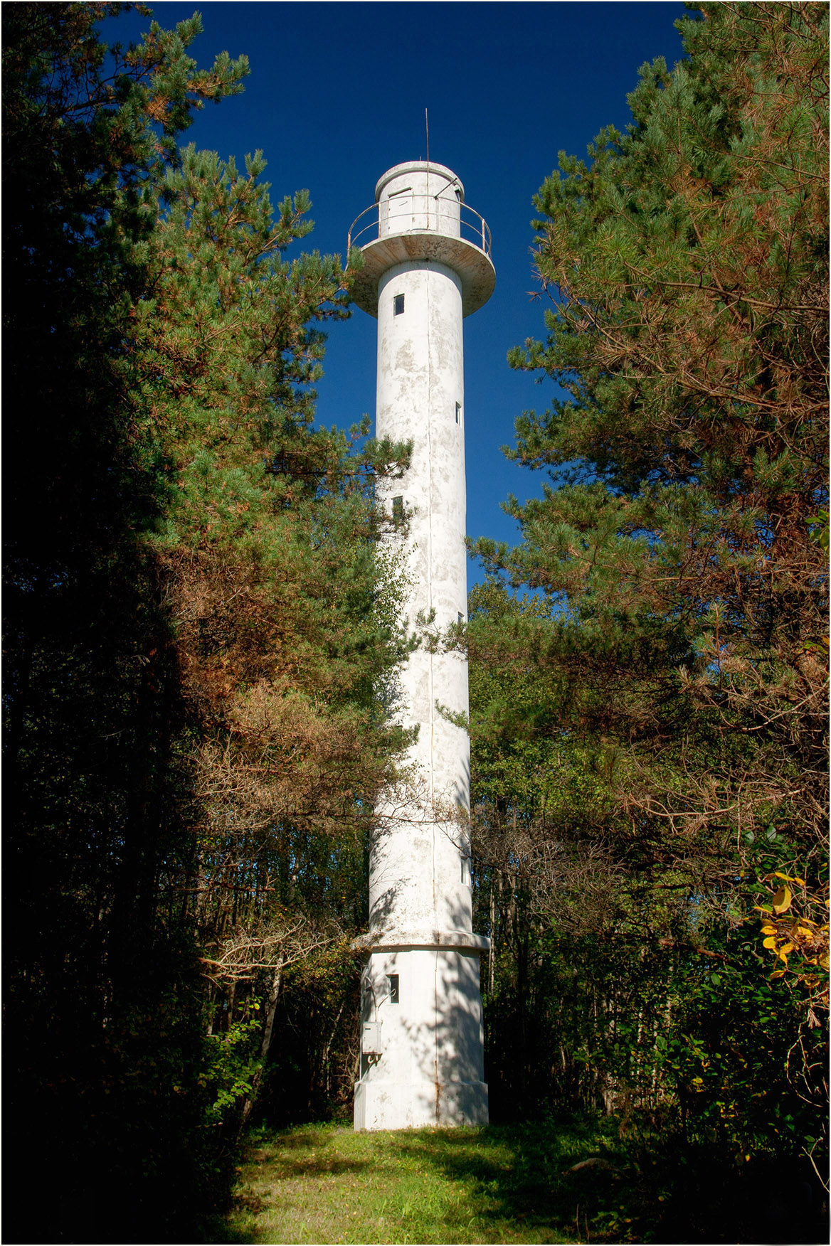 Norrby front lighthouse